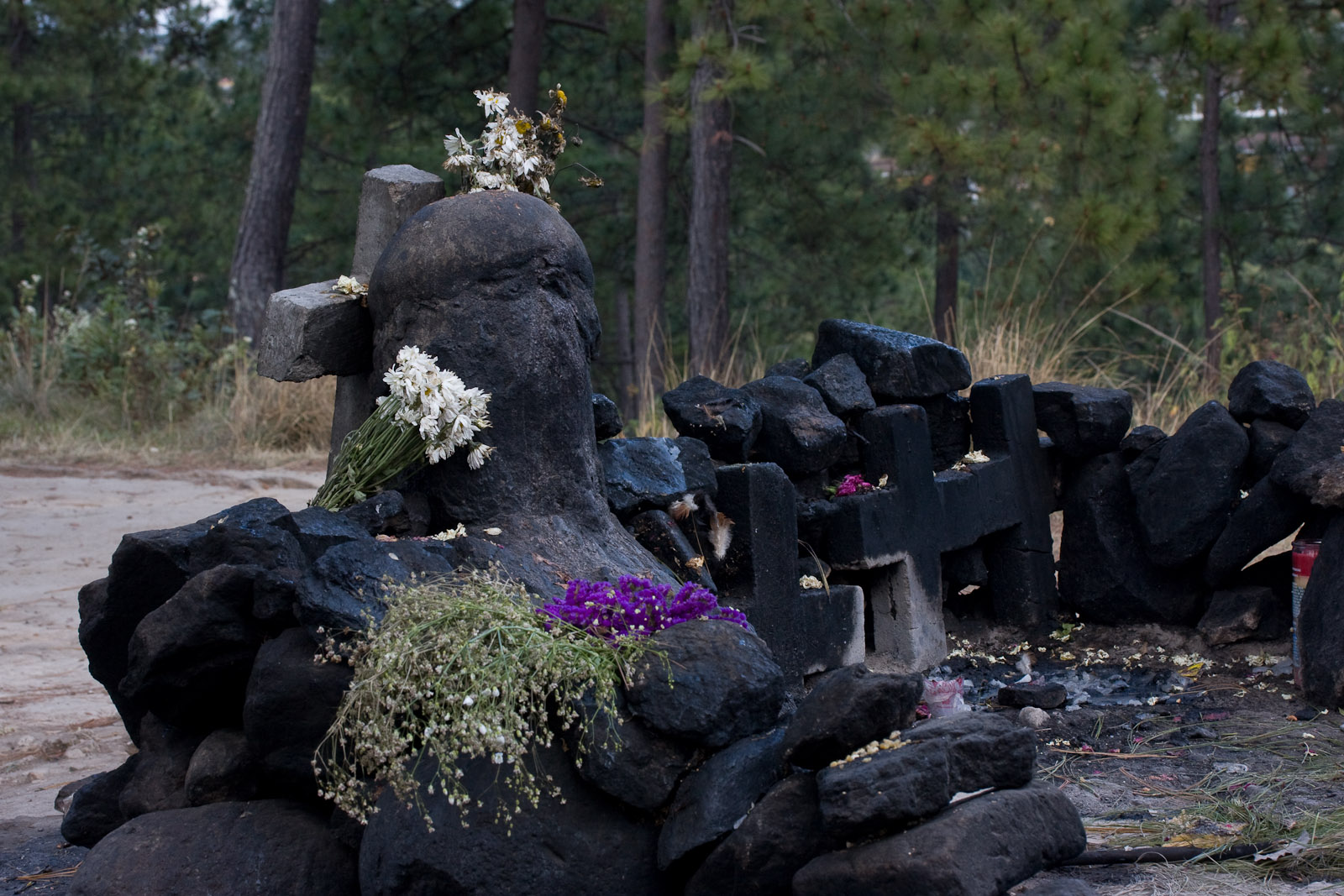 Pascual Abaj - Maya Shrine on a hill near Chichi